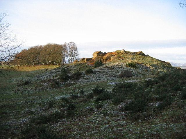 Roman Signal Station. One of several sites marked as Roman Signal Stations along the stretch of road near Findo Gask, this one provides an excellent vantage point.